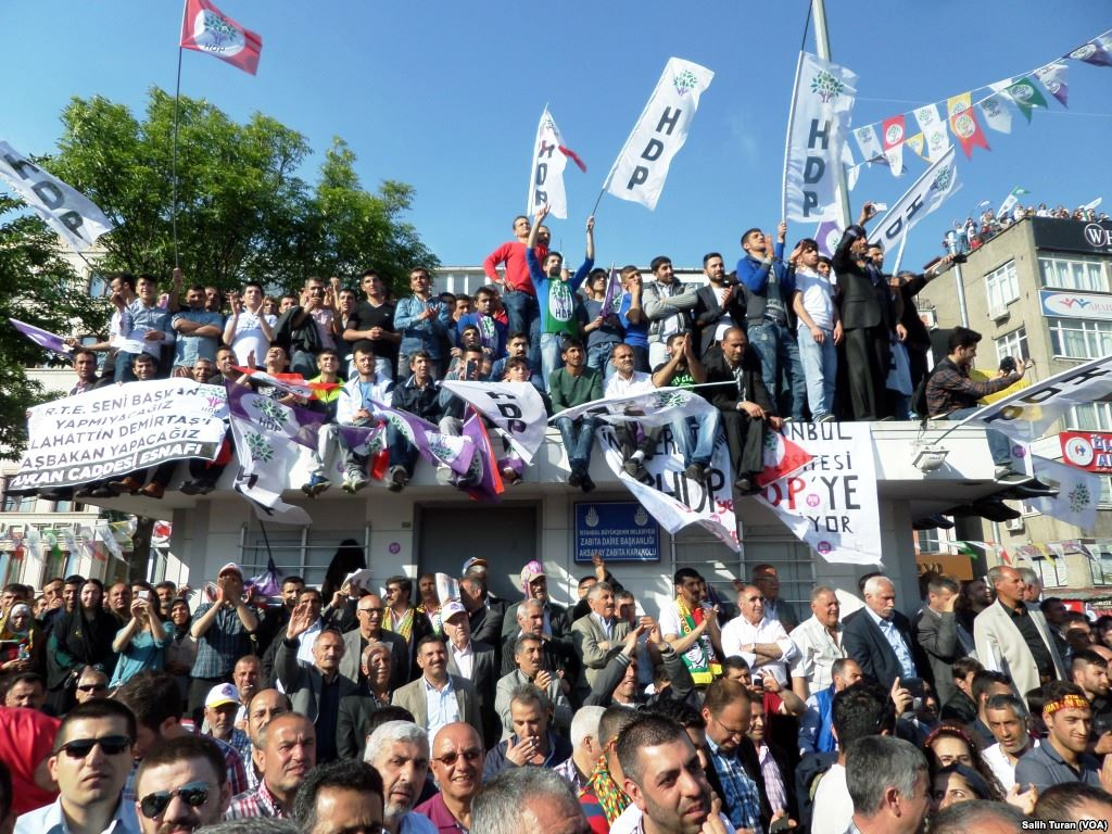 An electoral rally of the Peoples' Democratic Party (HDP) of Turkey before the 2015 general election.